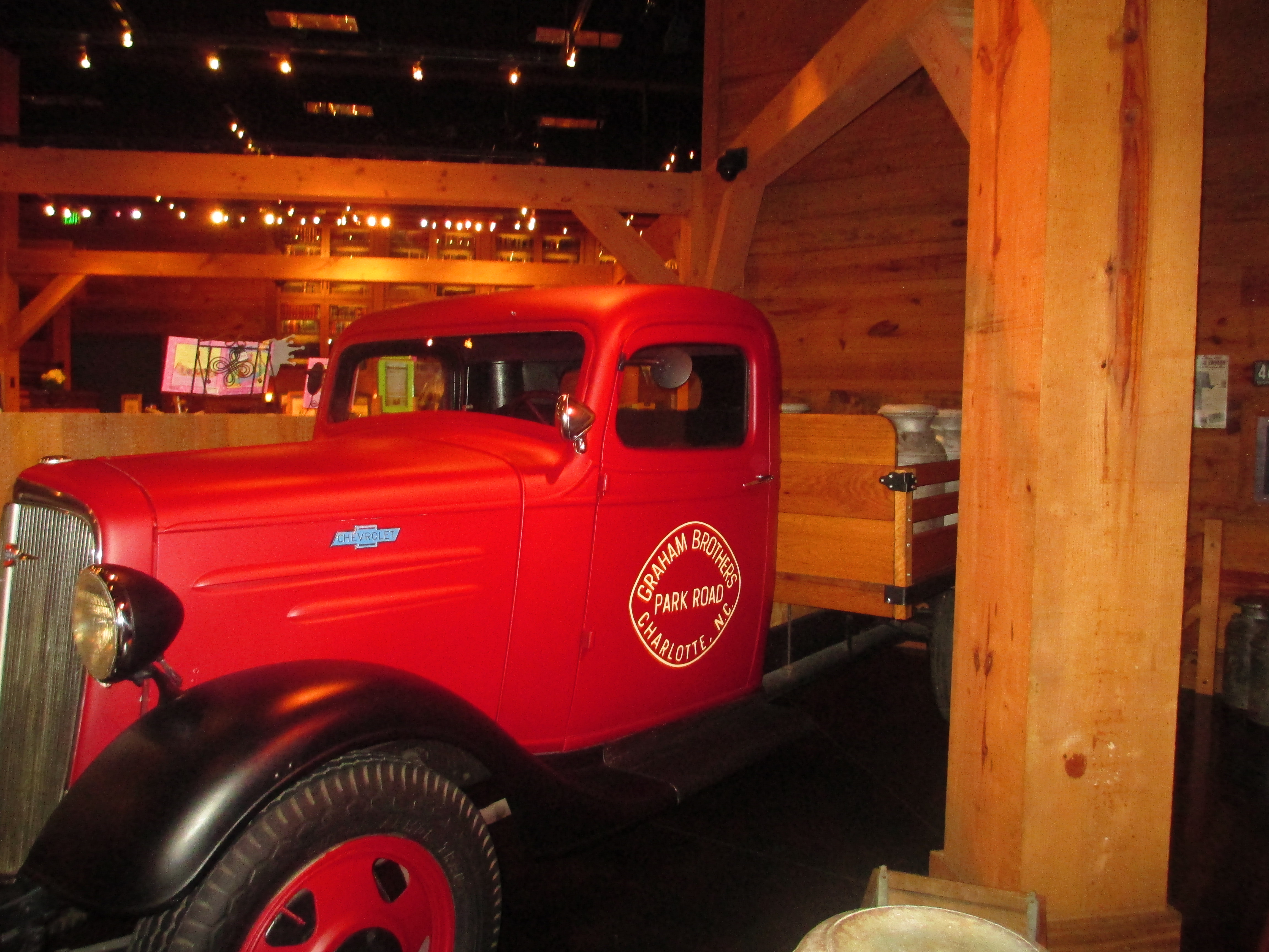 I took photo with Canon camera of Chevrolet truck of Graham Bros. Dairy at Billy Graham Library in Charlotte, NC.